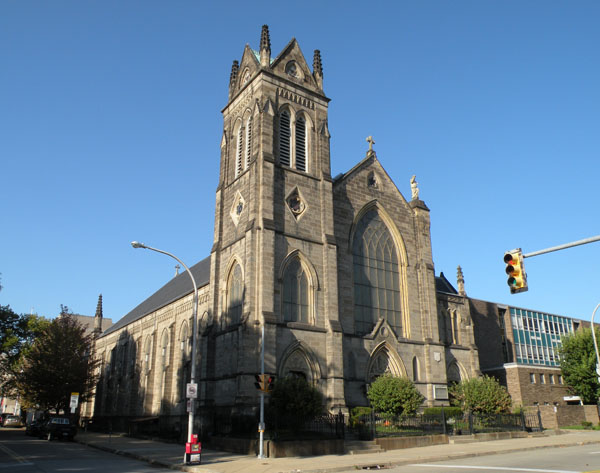 Picture of St. Peter's Roman Catholic Church located at 720 Arch Street in the Allegheny Center neighborhood of Pittsburgh, Pennsylvania, on October 9, 2010. Built in 1874, architect Andrew Peebles, the church is on the List of Pittsburgh History and Landmarks Foundation Historic Landmarks.